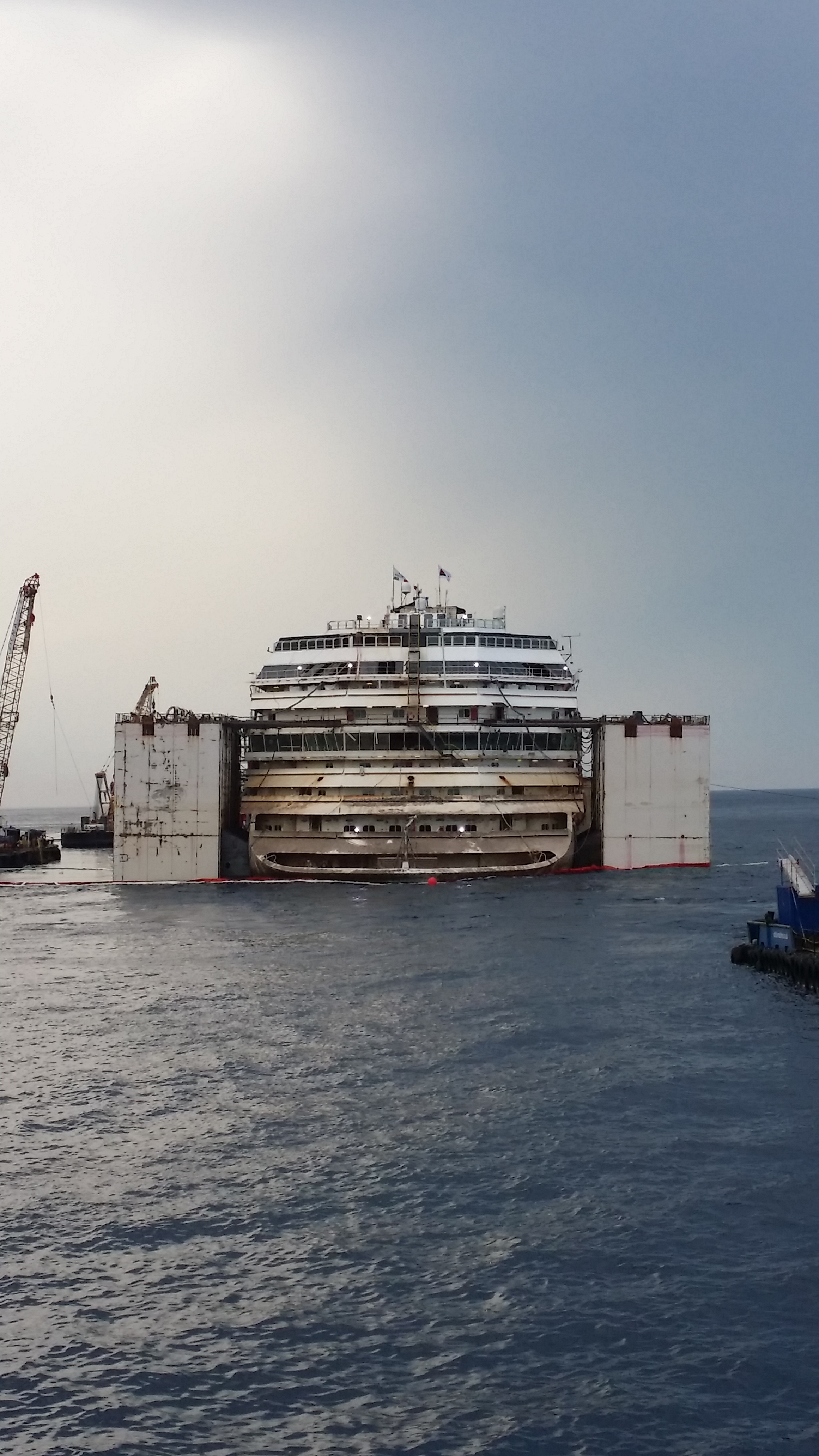 Costa concordia partially refloated